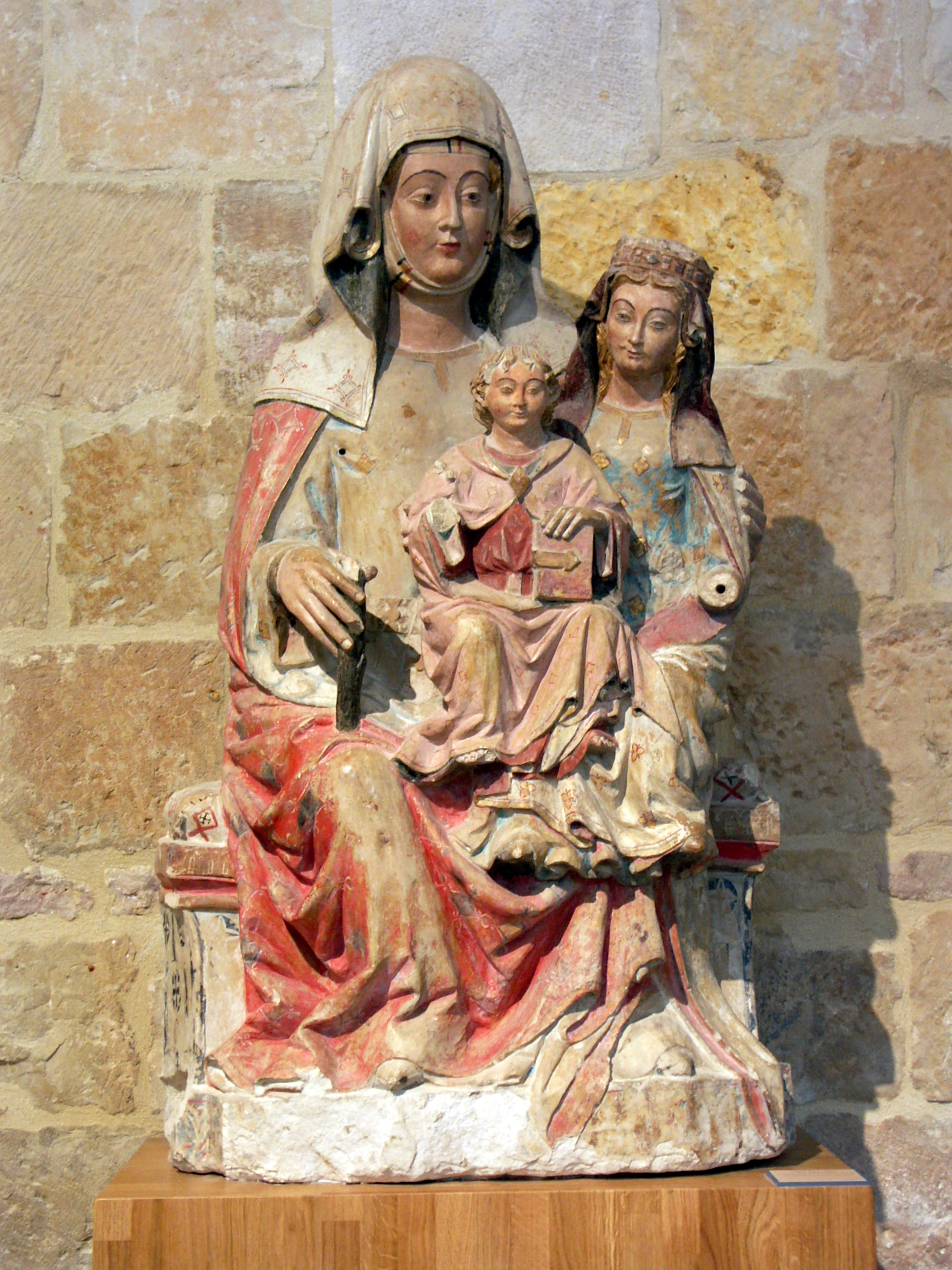 St. Anna Selbdritt, Sto. Domingo de Silos, Spanien, im Kreuzgang des Klosters